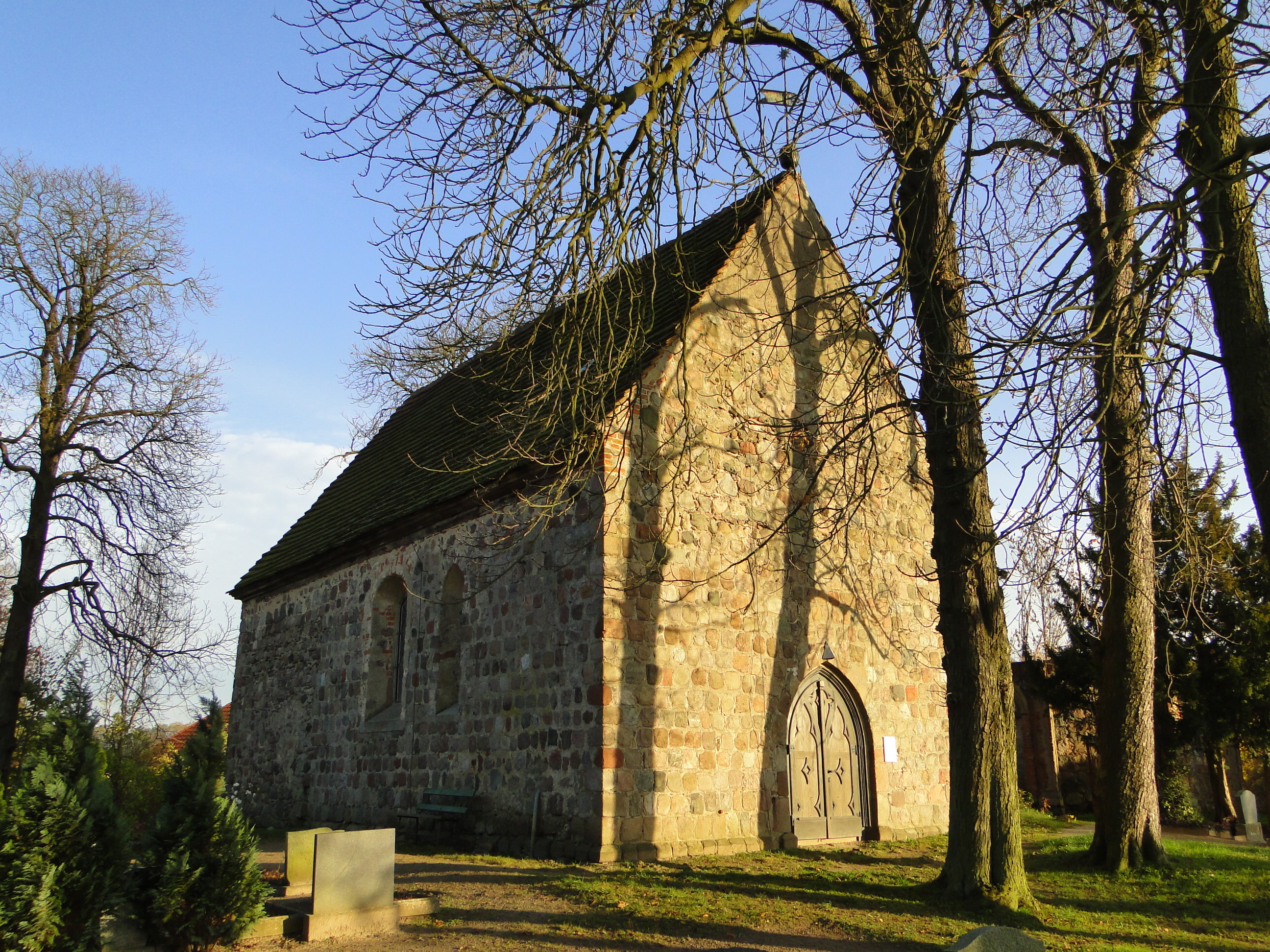 Church in Möllenbeck, district Mecklenburg-Strelitz, Mecklenburg-Vorpommern, Germany